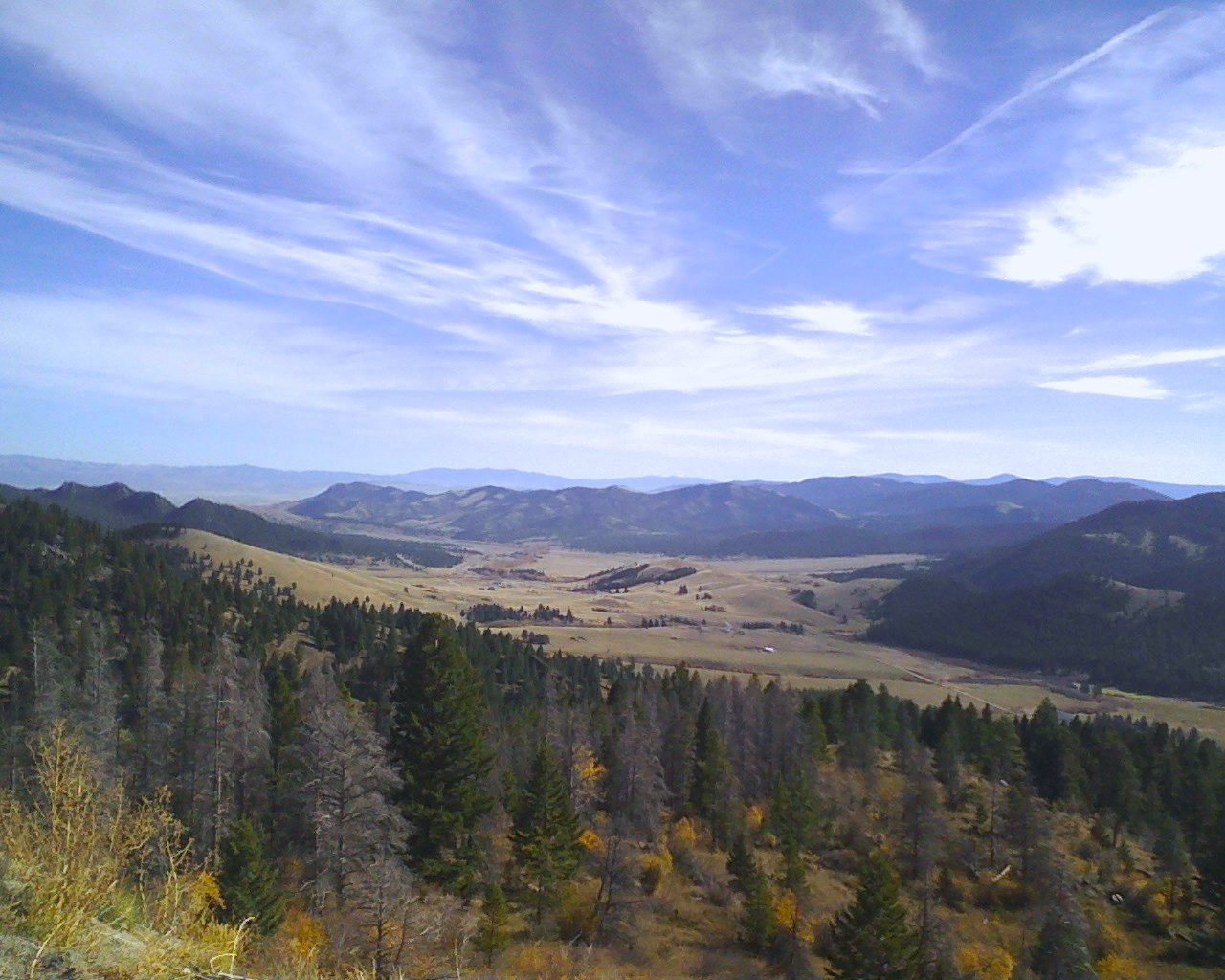 MacDonald Pass, Lewis and Clark County/Powell County, Montana; U.S. Highway 12, Helena National Forest. Image taken on east side of pass looking roughly east-southeast in direction of the city of Helena, Montana which is not visible due to intervening terrain